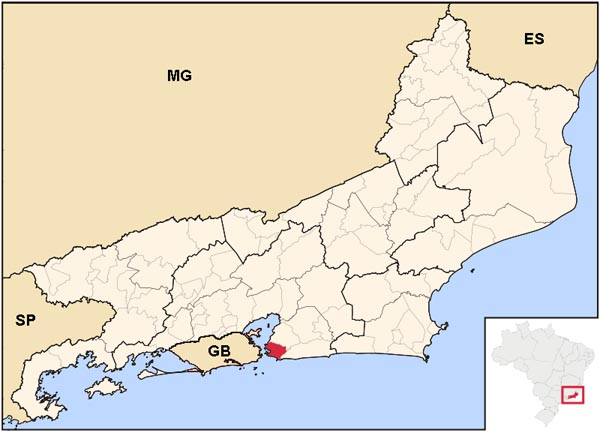 Former Guanabara State «GB» map, Niterói «in red» was the old Rio de Janeiro State capital